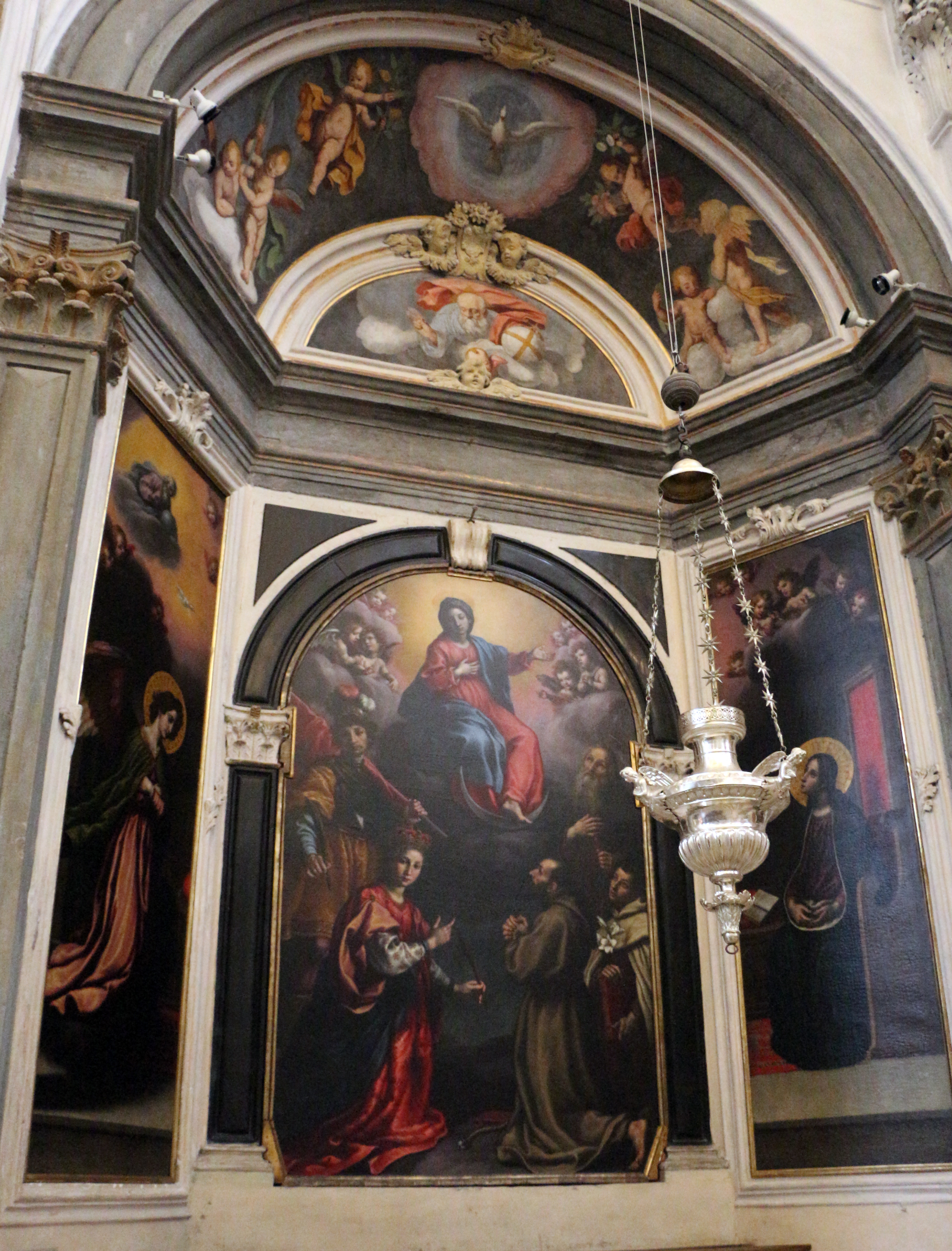 San Pancrazio (Bergamo)